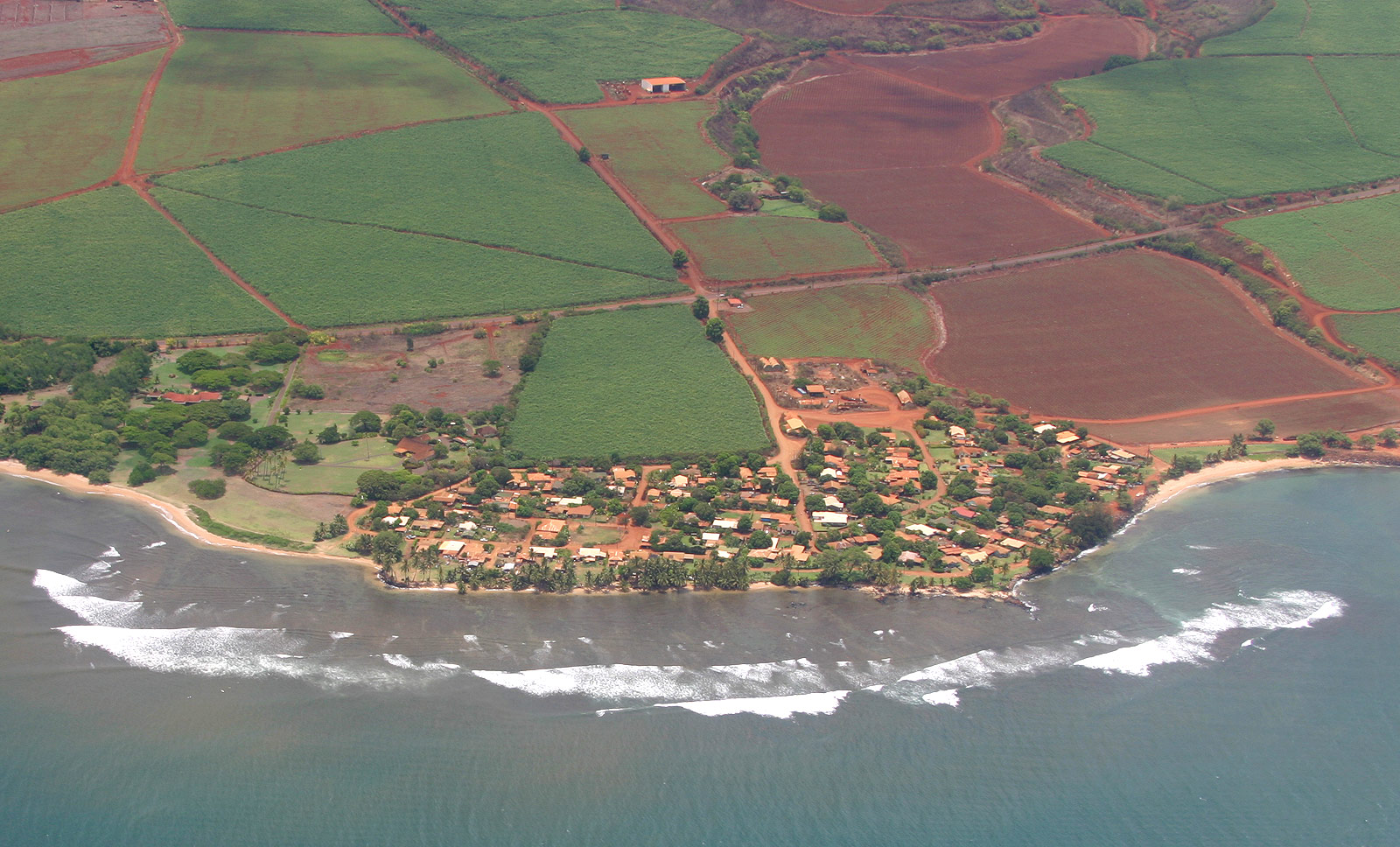 aerial view of Makaweli, island of Kauai, Hawaii